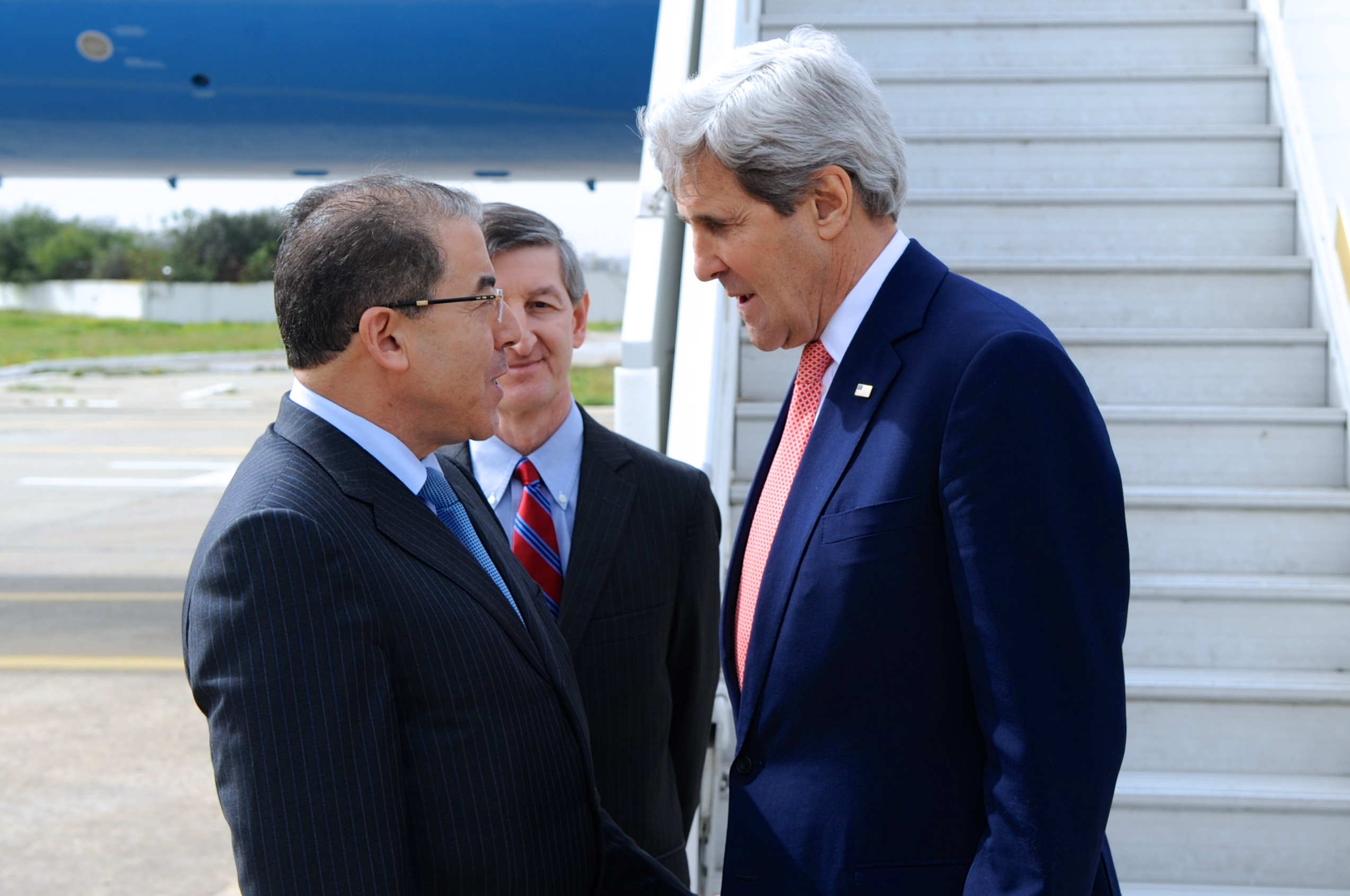 Americain Secretary of State John Kerry and Tunisian foreign minister Mongi Hamdi